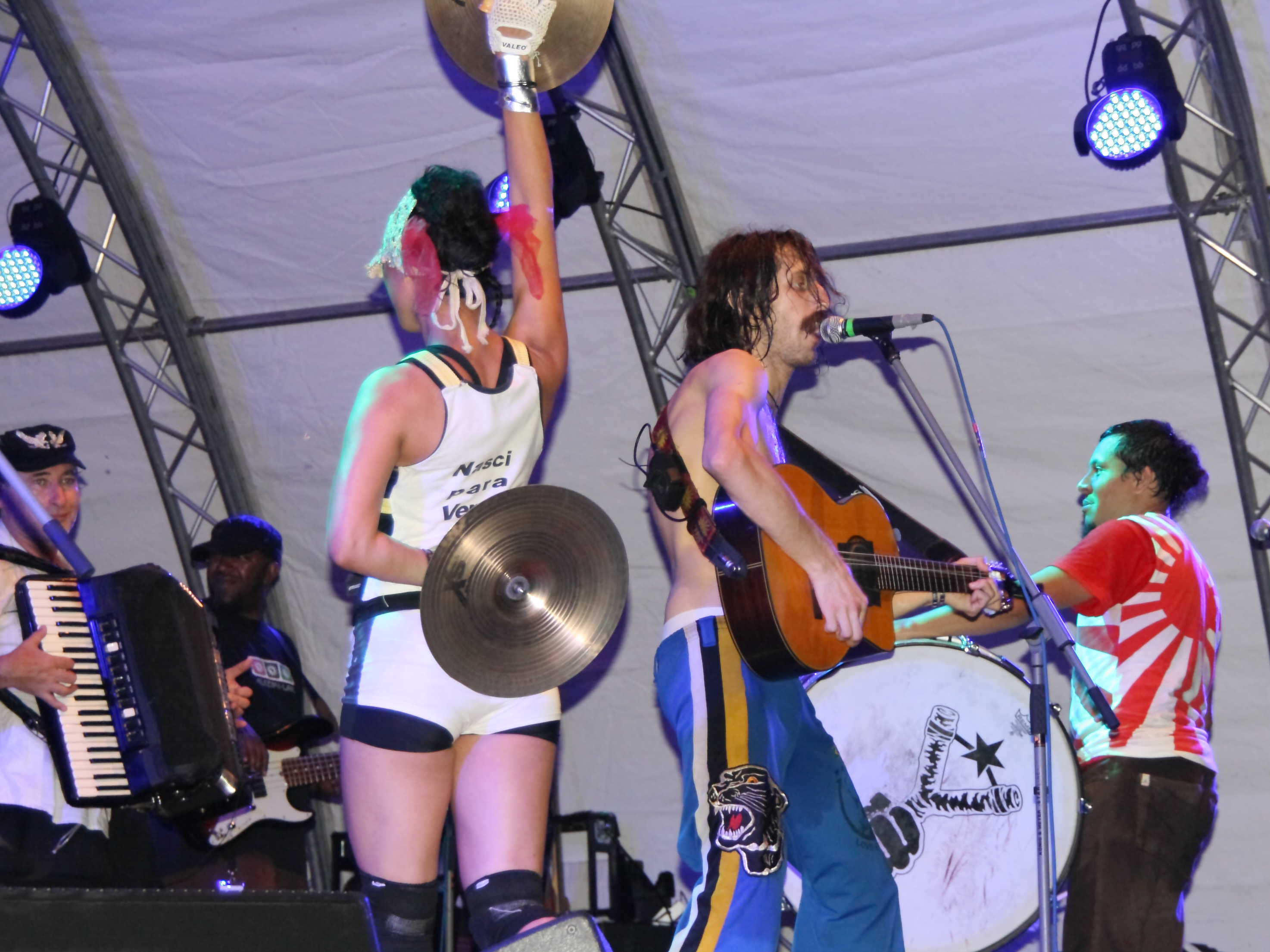 Gogol Bordello at TFF.Rudolstadt 2009